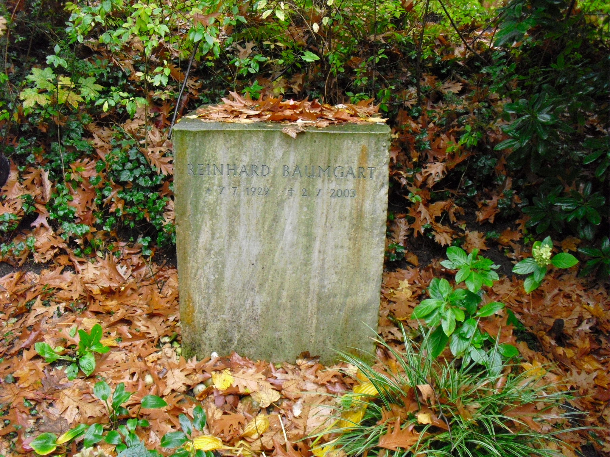 Grave of German writer Reinhard Baumgart in Friedhof Heerstraße in Berlin-Westend